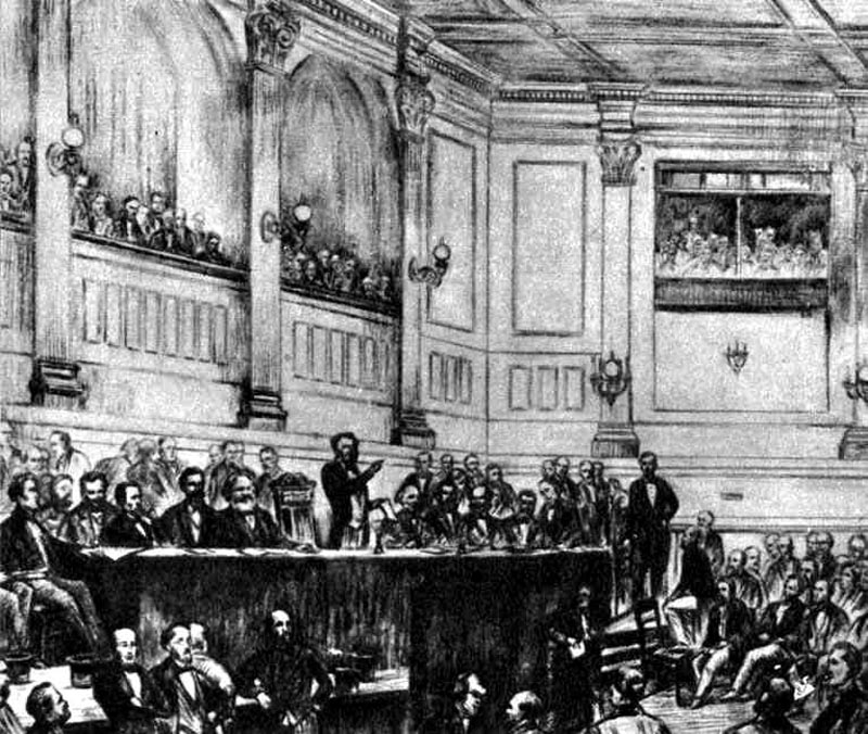 Firts congress of the International Workingmen's Association.